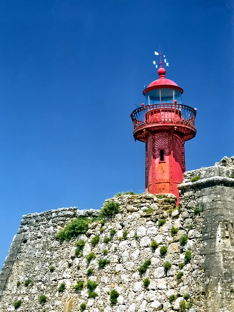 Farol da Figueira da Foz. This lighthouse was built inside the Santa Catarina's fort.